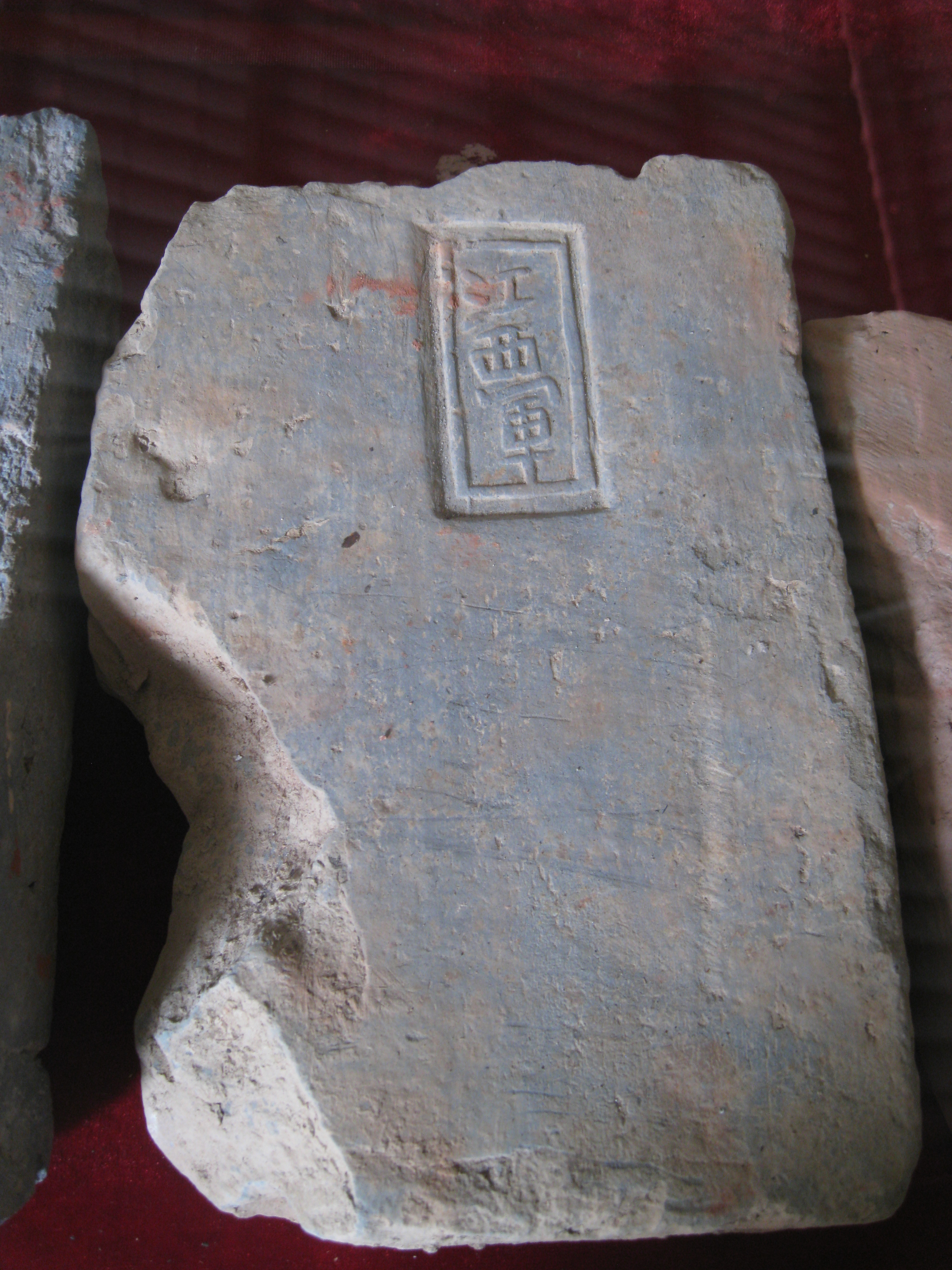 Bricks used in the contruction of the royal palaces of Dinh and Early Le Dynasties.